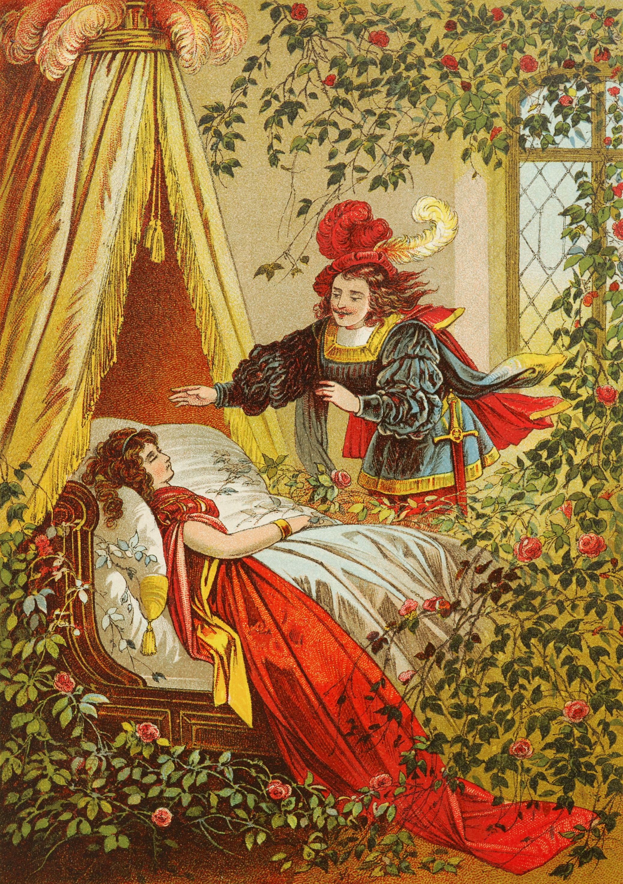 Sleeping Beauty, illustration by Heinrich Leutemann or Carl Offterdinger